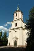 Front face of the St. Lawrence Parish Church in Bad Rotenfels district of the city of Gaggenau, Rastatt District, Baden-Wurttemburg, Germany